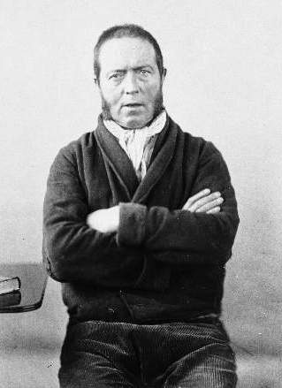 Daniel M'Naughton, insane murderer. Photographed by Henry Hering c 1856